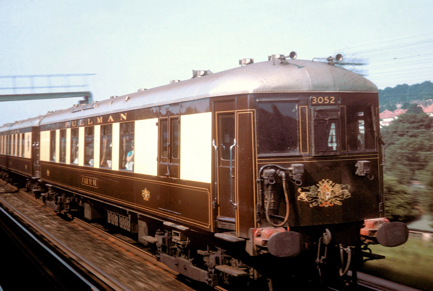 The Brighton Belle passing Purley Oaks at speed in June 1964. The all-Pullman train was still very much in her prime.